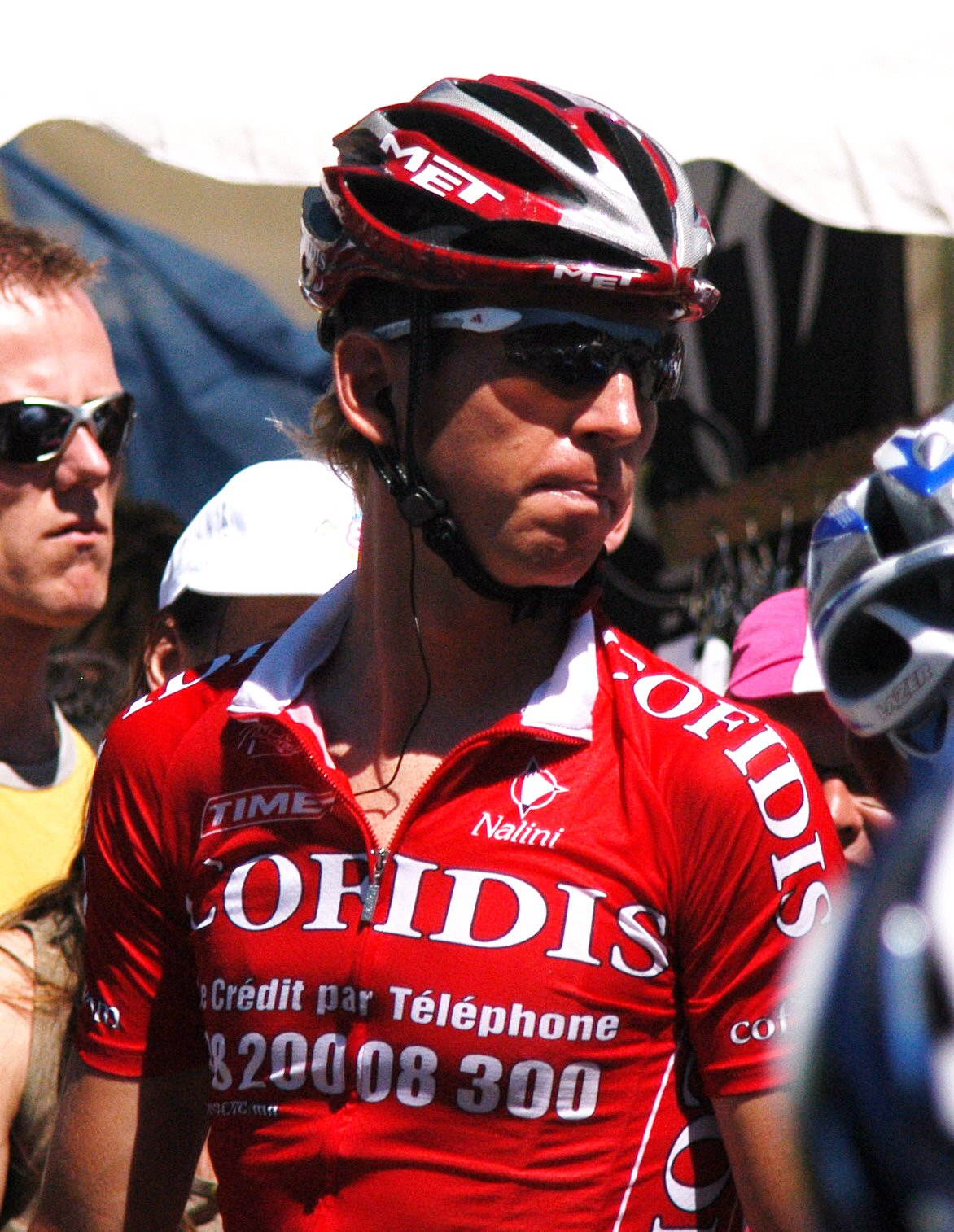 Rik Verbrugghe at the start of stage 8 in Le Grand Bornand, Tour de France 2007.